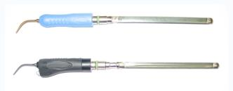 Modified from an image uploaded by User:Cquan